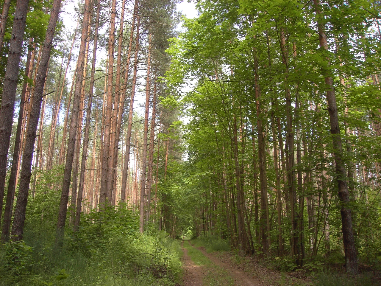 Ropėjai Forest near Village Skurbutėnai